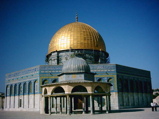 Dome of the Rock (Skalní dóm)